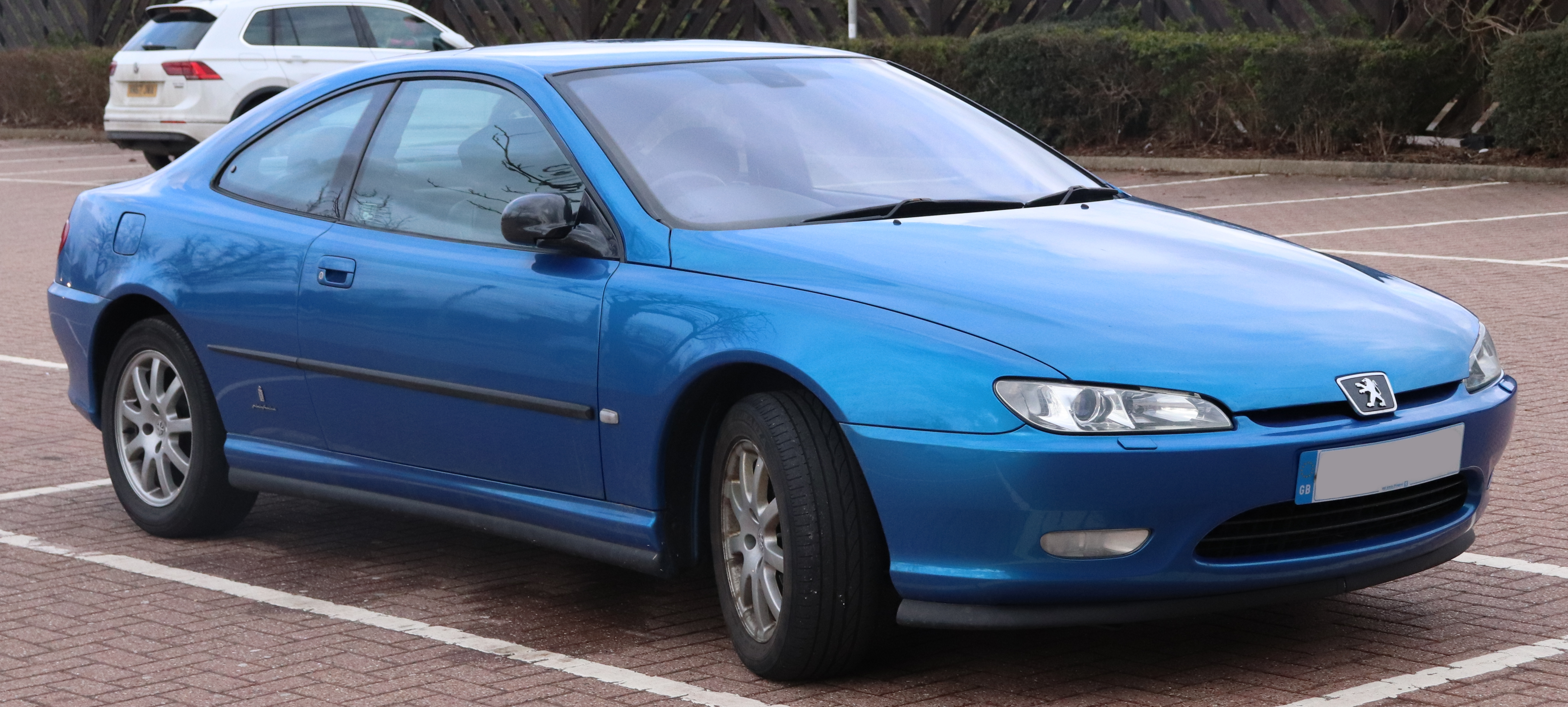 2003 Peugeot 406 HDi Coupe SE 2.2 Front Taken in Leamington Spa